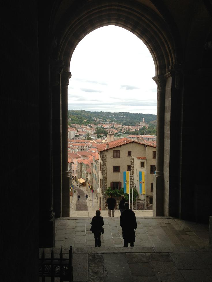 The view looking out of the main entrance of the Cathédrale Notre-Dame du Puy.